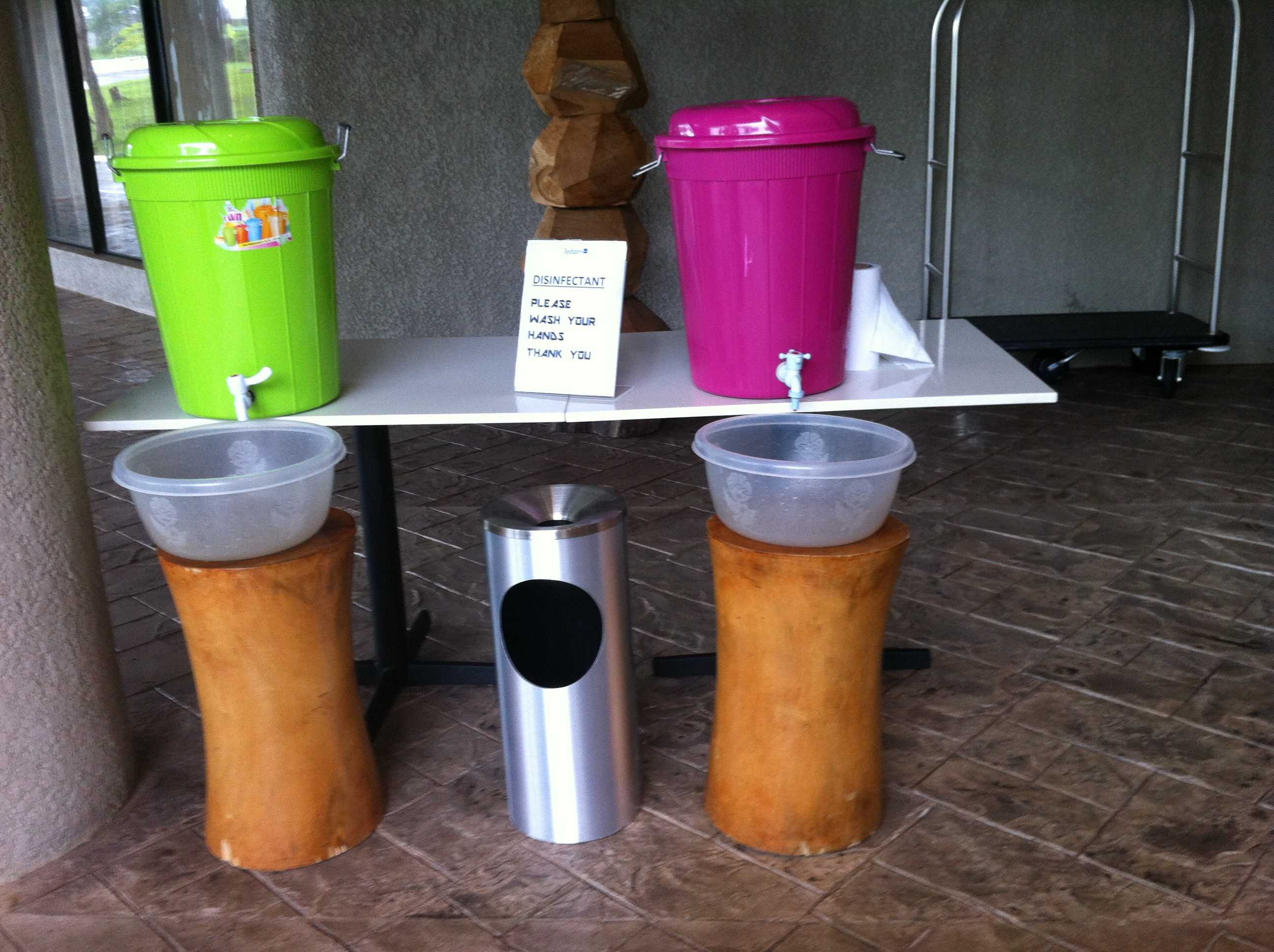 Handwashing station with chlorine water at the Sierra Leone airport. For more information on Ebola and what CDC is doing, please visit